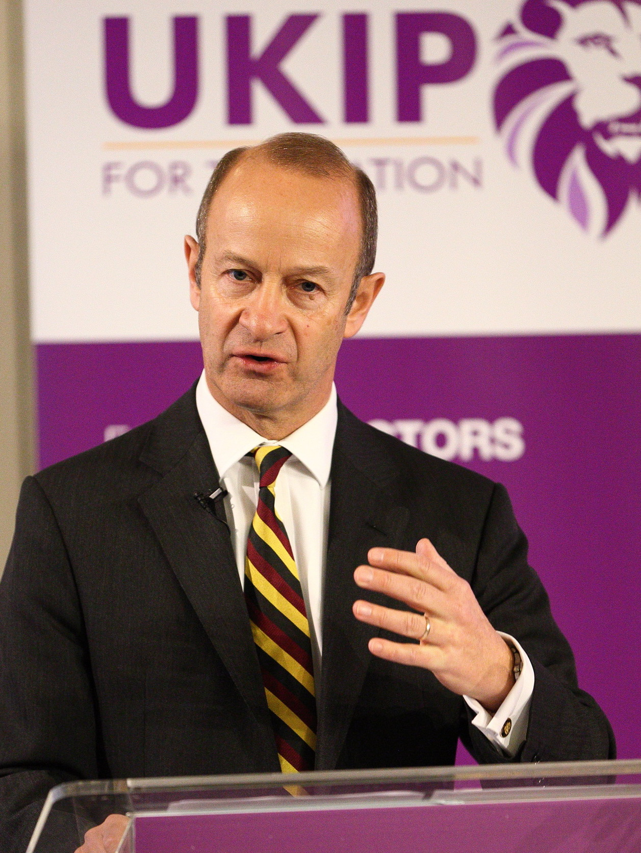 UKIP Leader Henry Bolton speaking at the launch of the Save Our Services campaign in London.